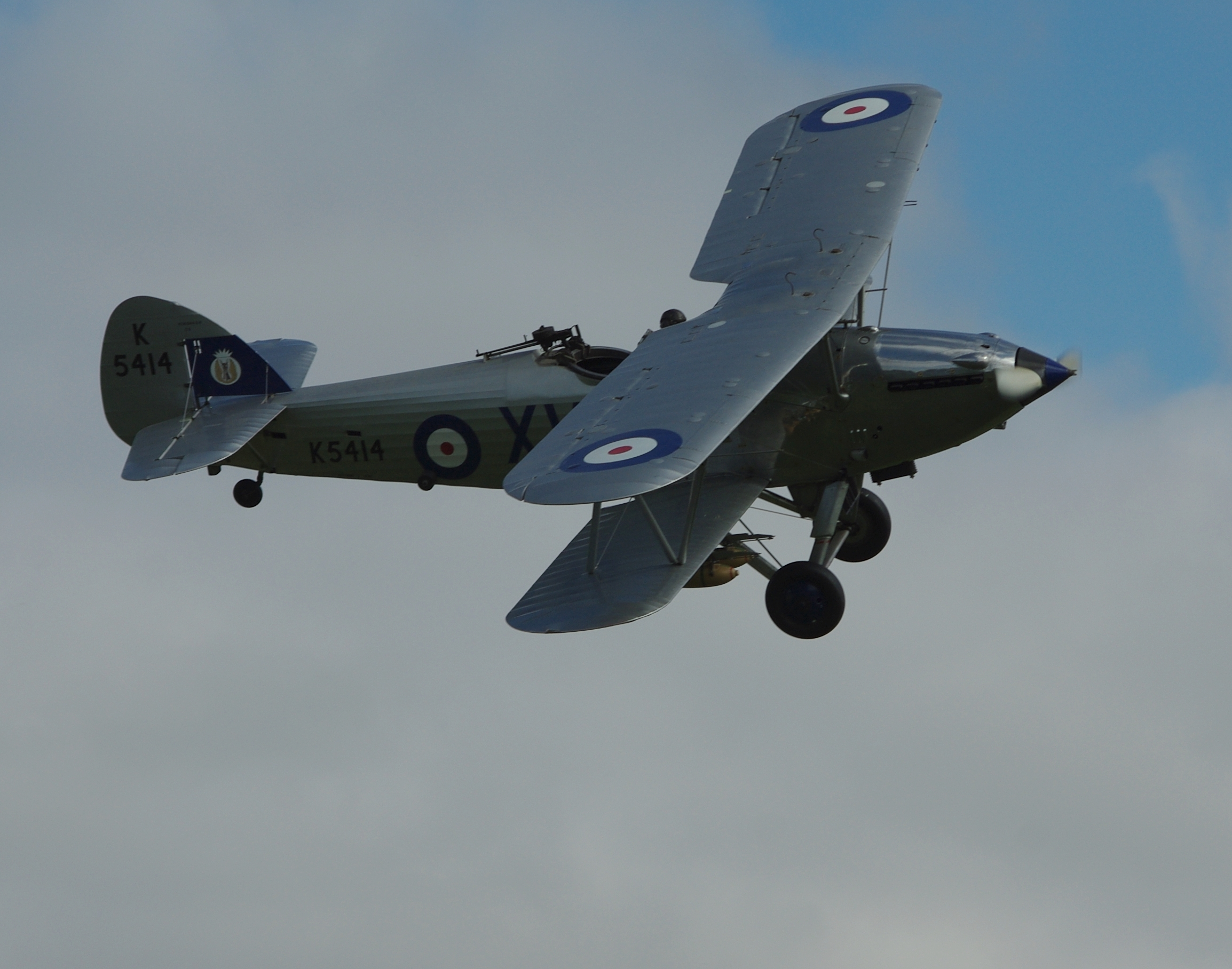 Hawker Hind (Afghan) G-AENP ("5414") at the 2013 Shuttleworth Uncovered event